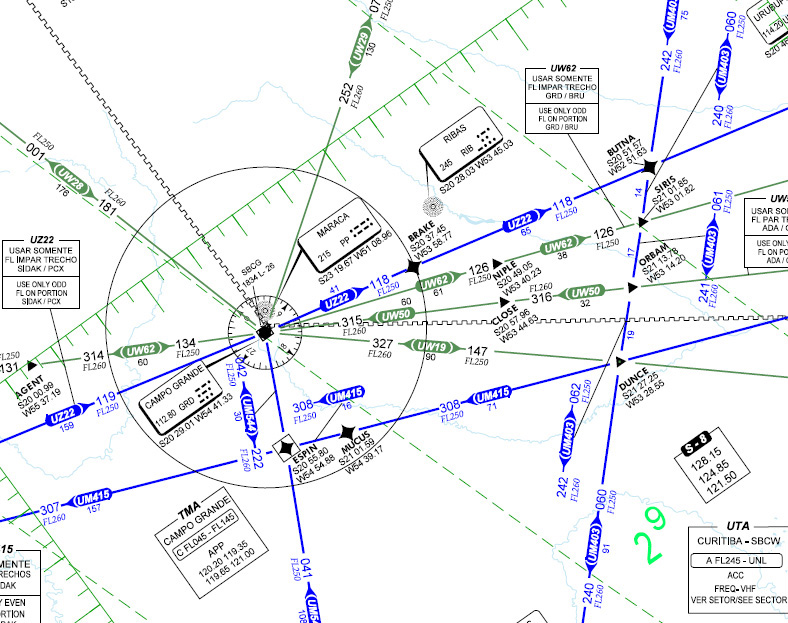 Enroute Chart near SBCG - Campo Grande, Brazil